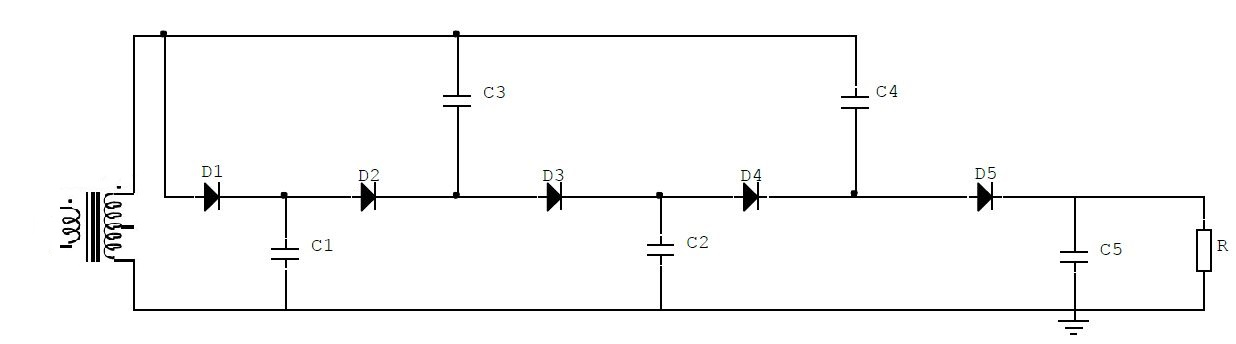 Схема помножувача Шенкеля